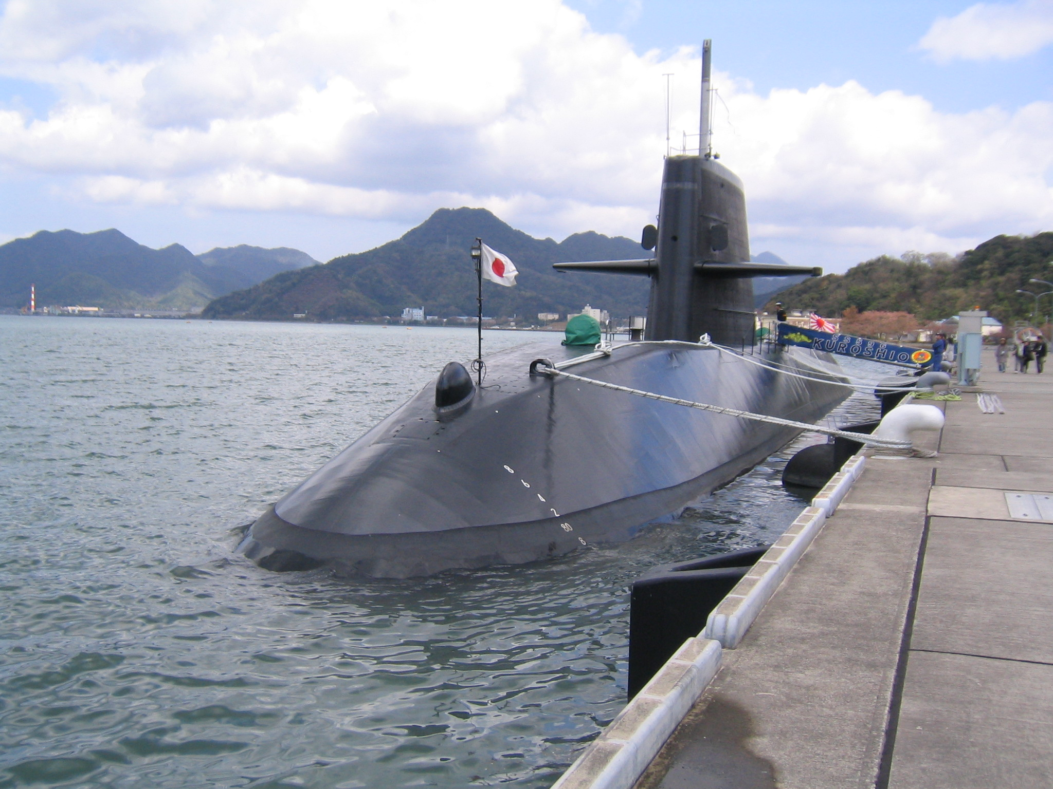 JS Kuroshio (SS-596) moored at Kitasui-Pier, Maizuru. Canon IXY Digital 30